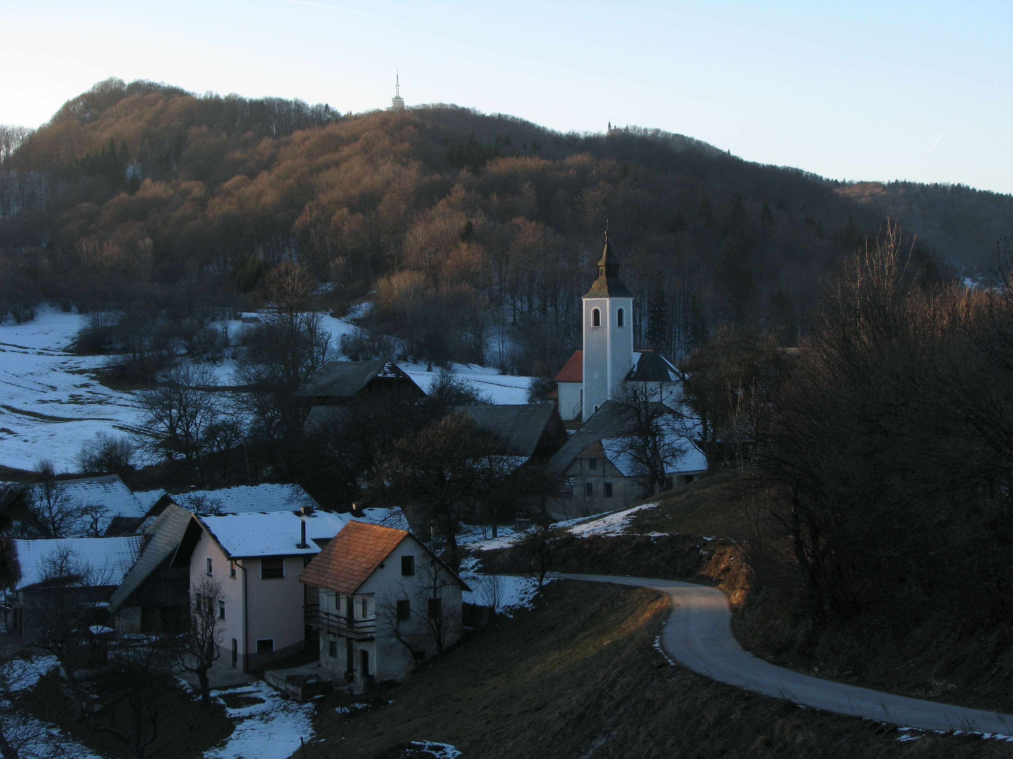 Village of Čimerno in Slovenia.